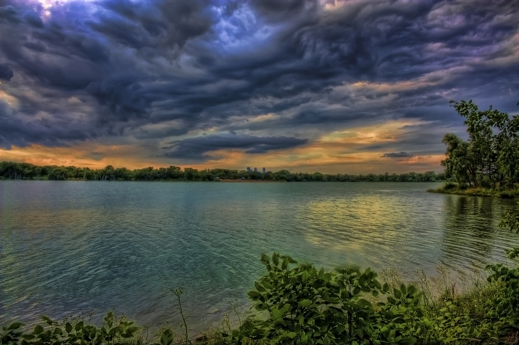 Camera Used: Canon EOS 450D Software Used: PhotoMatix Pro 3.2 Adobe Photoshop CS4 Topaz Labs 4 UPDATE: EDITED TO REMOVE NOISE